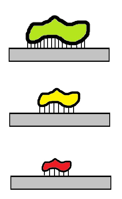 larger proteins are able to have more interactions with the surface